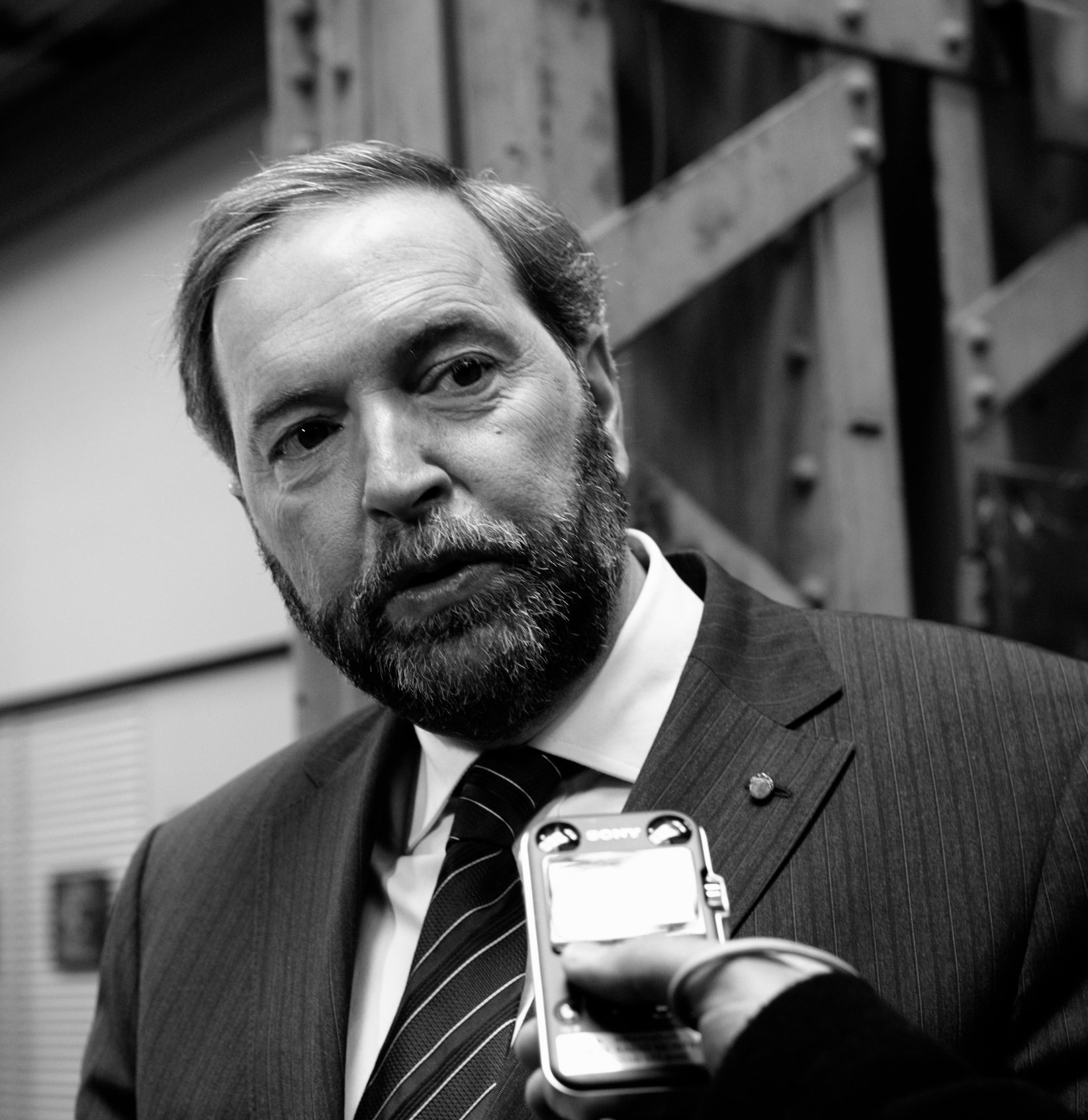 Thomas Mulcair